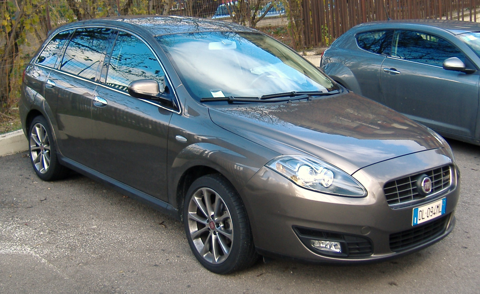 Fiat Croma 2009